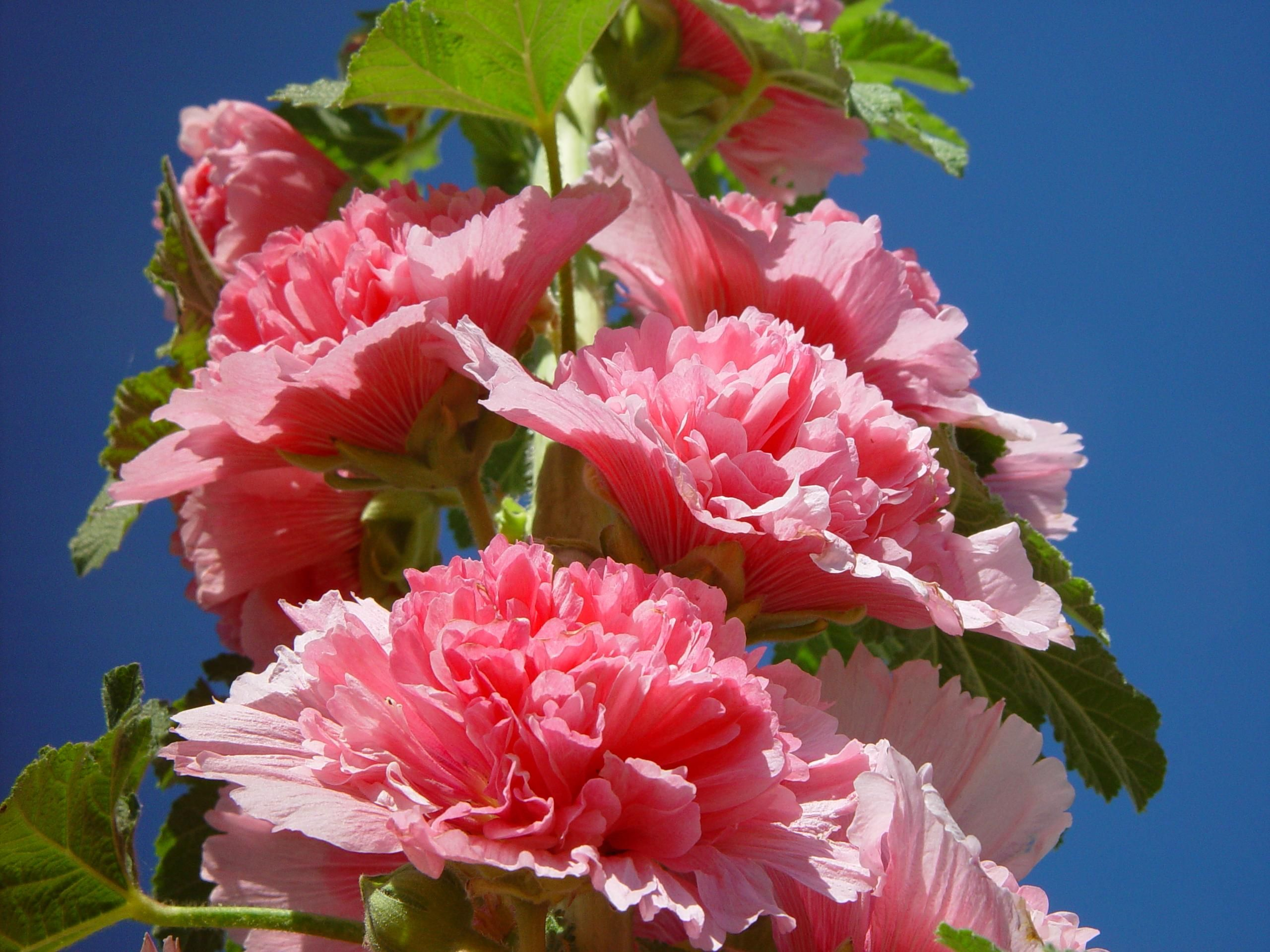 Image title: Pink hollyhocks reach for the sky Image from Public domain images website